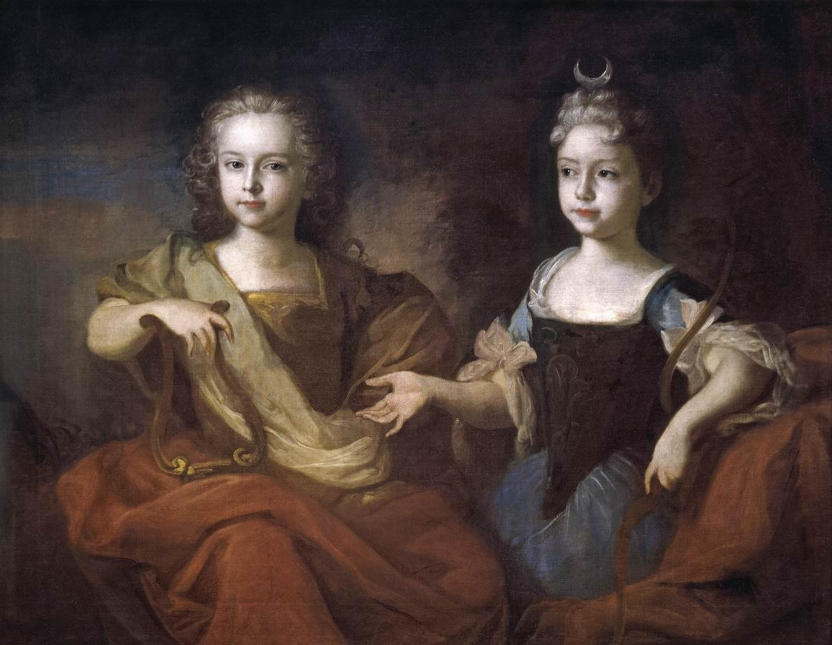 Tsarevitch Peter Alexeevitch (future Peter II) with his sister Natalia Alexeevna